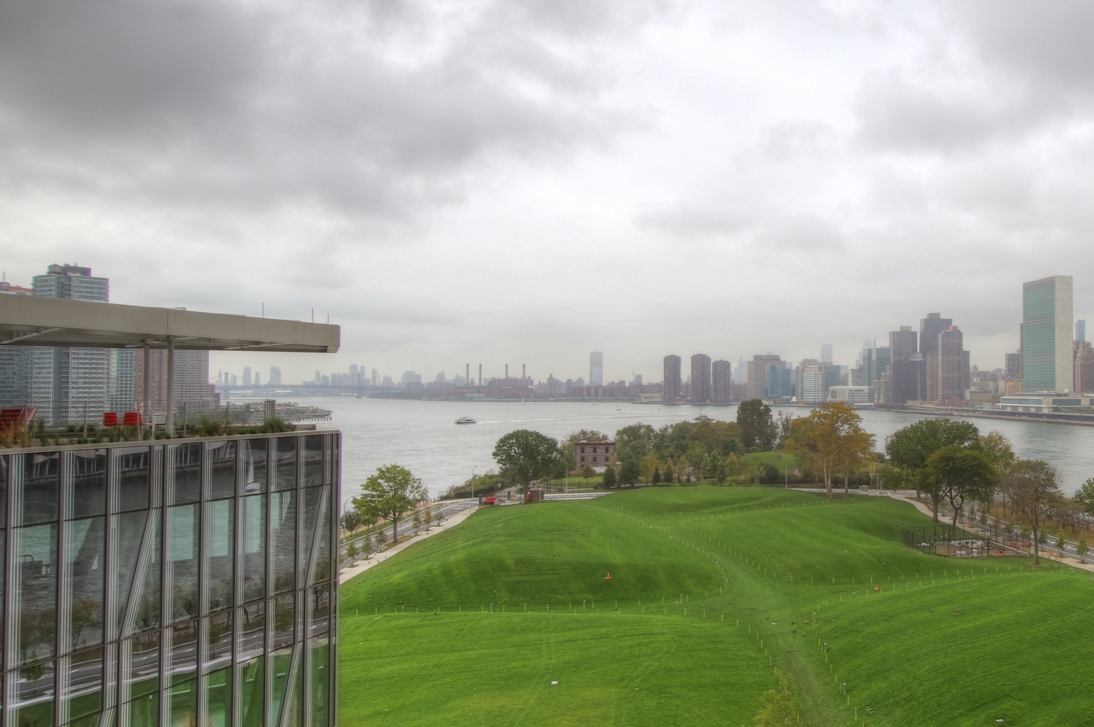 Site: Cornell Tech - The Bridge